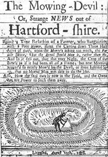 A journal of 1678